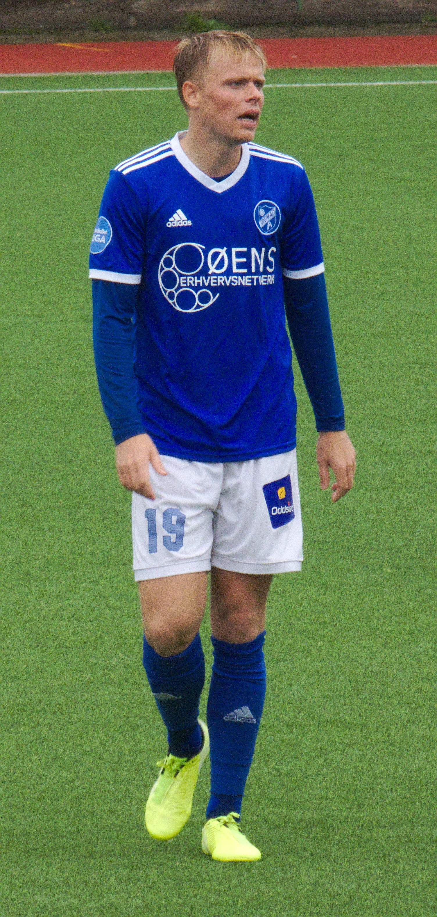 BK Fremad Amager midfielder Markus Bay during a match.